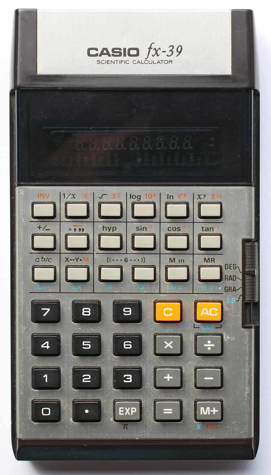 Casio fx-39 Scentific Calculator